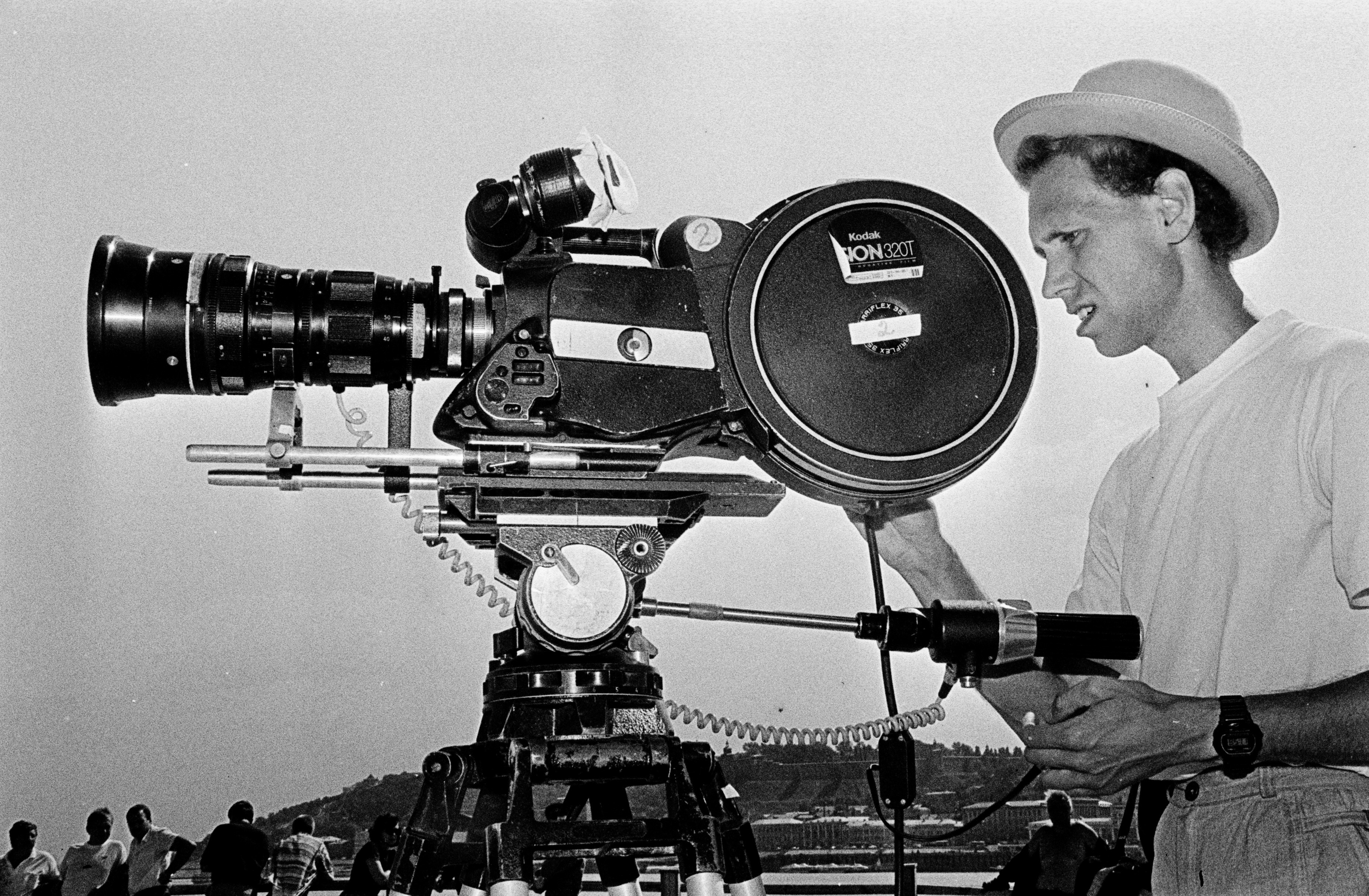 Arriflex 35 BL-III movie camera.